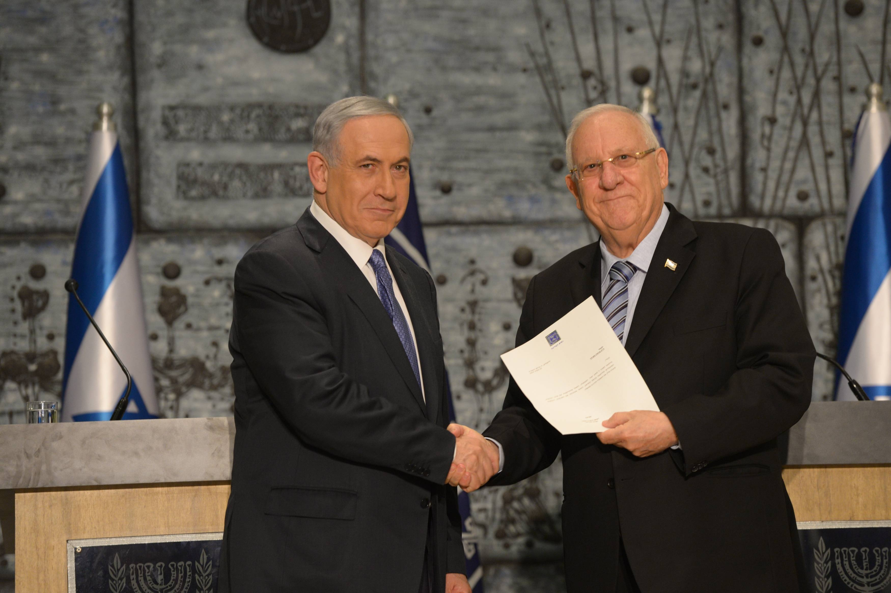 President Reuven Rivlin has assigned the task of forming the new government on Prime Minister Benjamin Netanyahu in an official ceremony held at the President's dinner